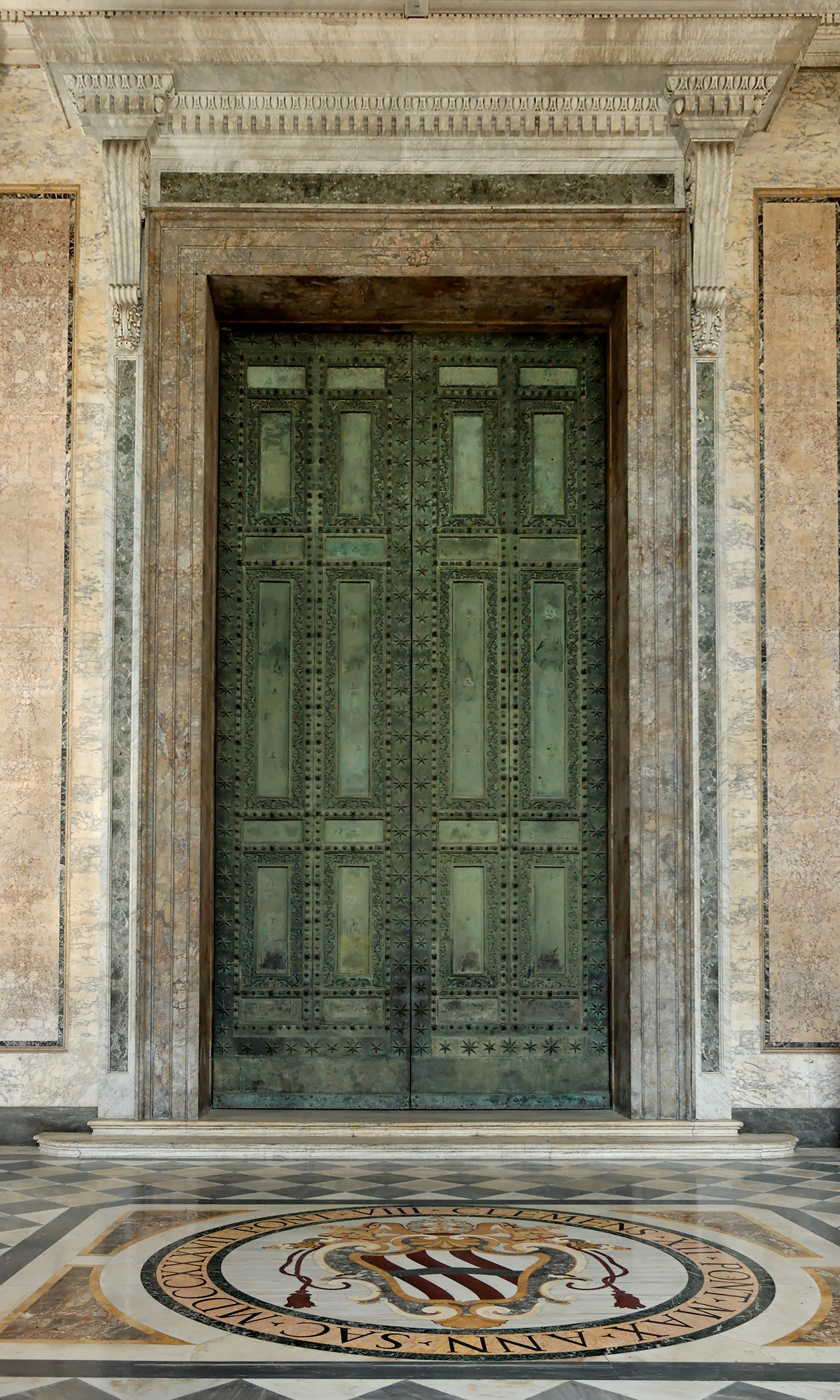 Ancient Roman doors from the Curia Julia, moved in 1660 to become the main door of the Basilica of St. John Lateran (Rome).